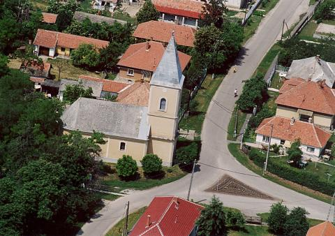 Hejőbába, Hungary, aerialphotography